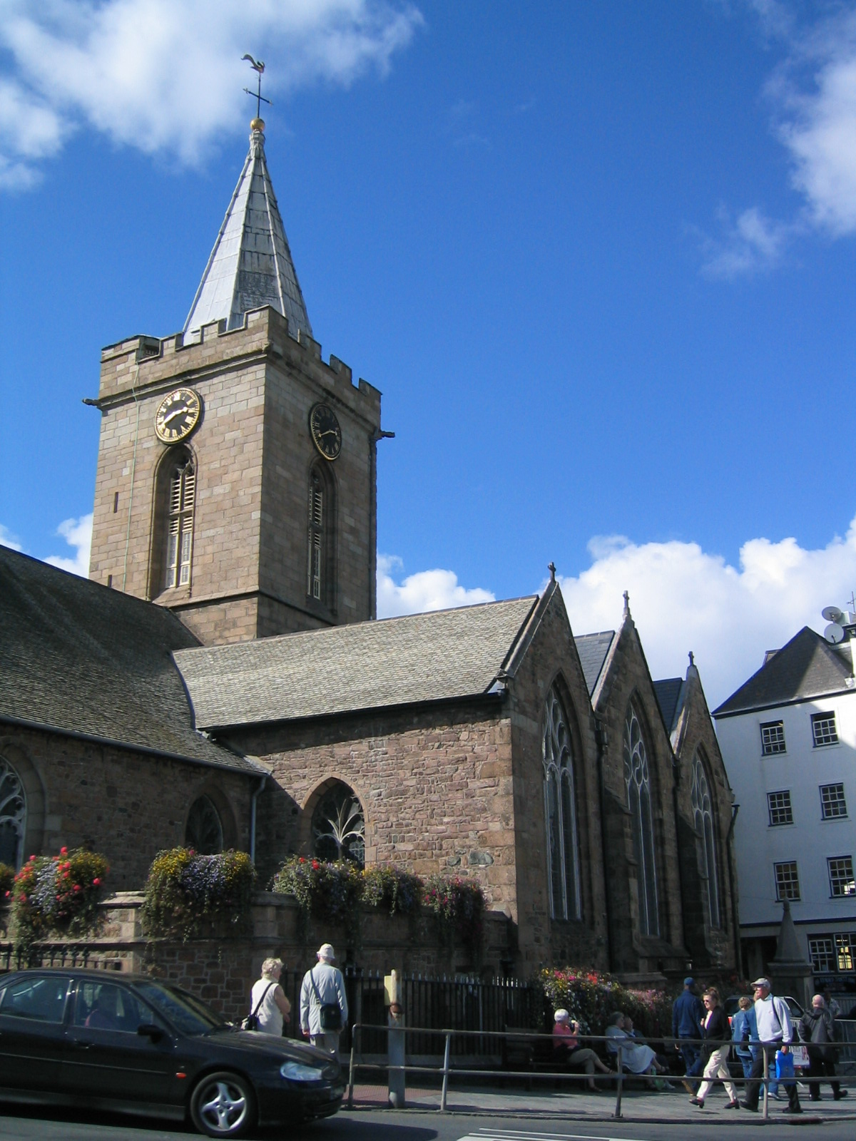 St Peter Port church. Photo taken by User:AlanFord, 2003-09-23. Category:Images of Guernsey